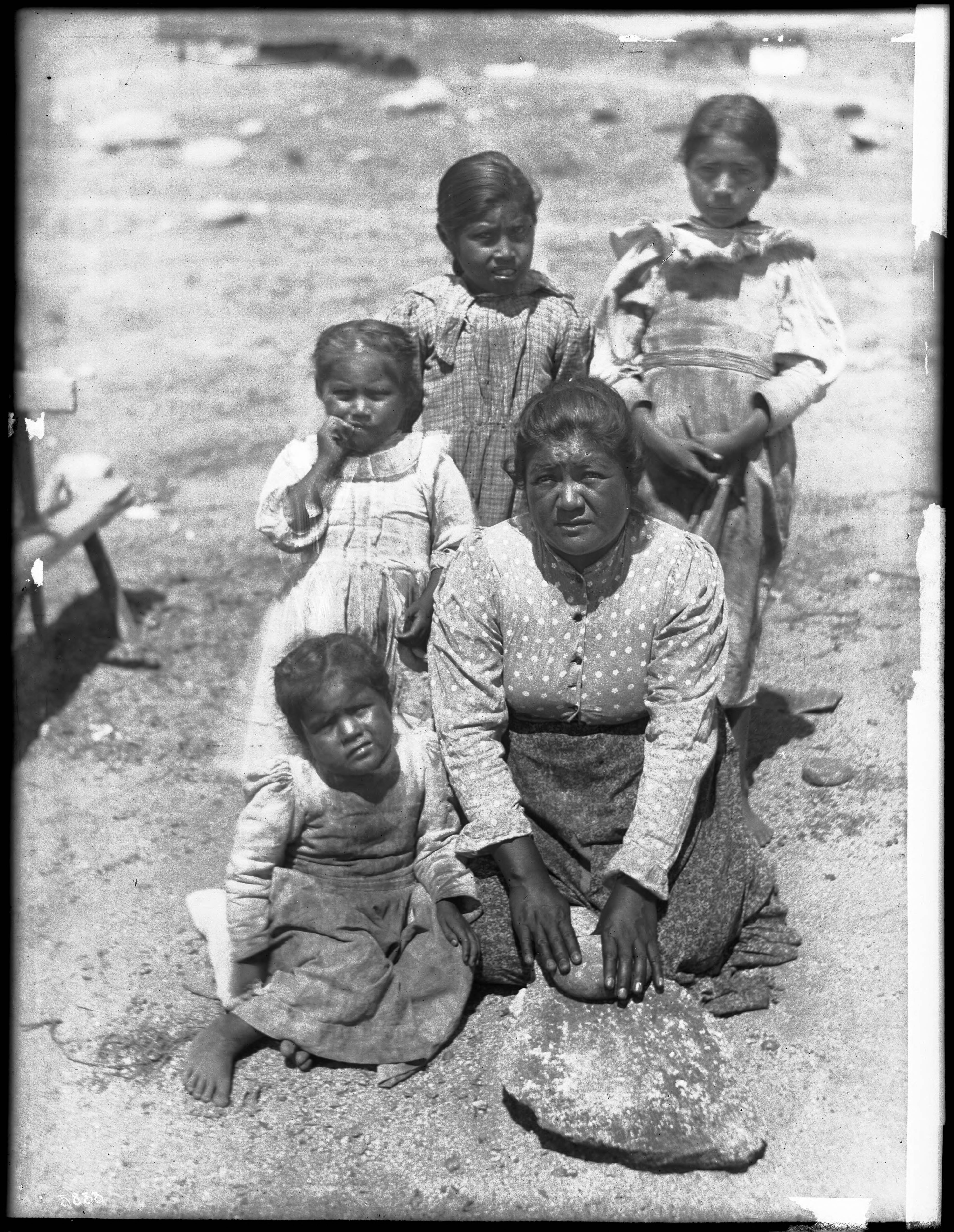 Agua Caliente Indian woman, Nievas Chaves, with a metate stone, 1903 Photograph of an Agua Caliente Indian woman, Nievas Chaves, with a metate stone (used for grinding grain), 1903. She is kneeling on the ground outside with her four children standing (or sitting) behind (and beside) her. She is the daughter of Simon and Sensioni Cibinoat. Call number: CHS-3833 Photographer: James, George Wharton Filename: CHS-3833 Coverage date: 1903 Part of collection: California Historical Society Collection, 1860-1960 Format: glass plate negatives Type: images Part of subcollection: Title Insurance and Trust, and C.C. Pierce Photography Collection, 1860-1960 Repository name: USC Libraries Special Collections Accession number: 3833 Microfiche number: 1-172- Archival file: chs_Volume95/CHS-3833.tiff Repository address: Doheny Memorial Library, Los Angeles, CA 90089-0189 Geographic subject (country): USA Format (aacr2): 1 photograph : glass photonegative, b&w ; 22 x 17 cm. Rights: Digitally reproduced by the USC Digital Library; From the California Historical Society Collection at the University of Southern California Subject (adlf): tribal areas Repository Contributing entity: California Historical Society Date created: 1903 Publisher (of the digital version): University of Southern California. Libraries Format (aat): photographs Geographic subject (state): California Legacy record ID: chs-m16410 Access conditions: Send requests to address or e-mail given. Phone (213) 821-2366; fax (213) 740-2343. Subject (lcsh): Indians of North America; Women; Children; Cookery Subject: Mission Indians; Mission Indians; Agua Caliente (Warner's Ranch) -- Mission Indians